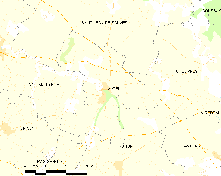 Map of French municipality Mazeuil